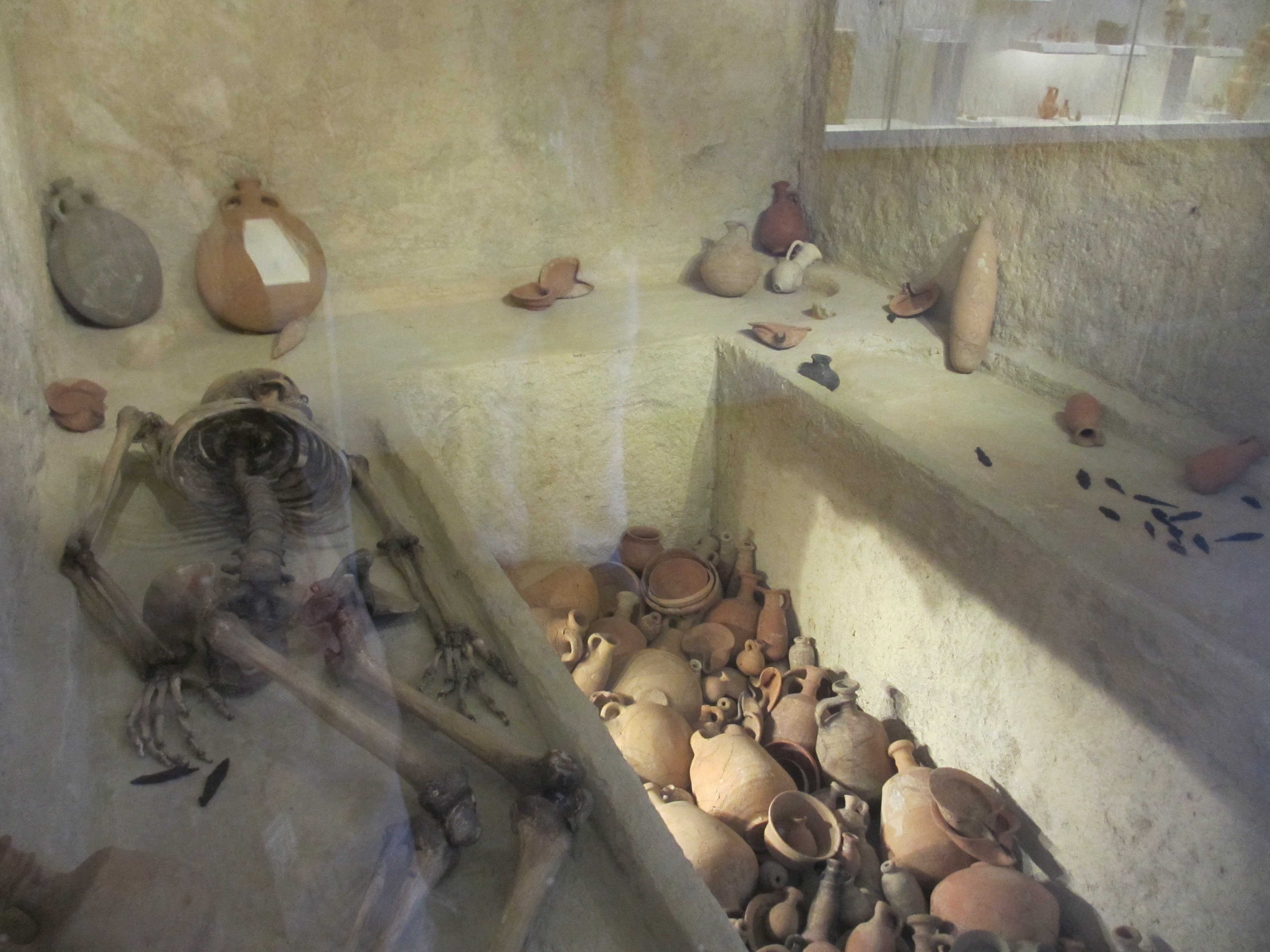 Reconstructed burial cave with funerary gifts. Ketef Hinnom, Jerusalem (7th-6th BCE). Israel Museum, Jerusalem